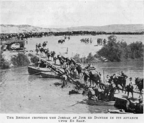 The Brigade crossing the Jordan at Jisr ed Damieh in its advance upon Es Salt - New Zealand in the First World War 1914–1918